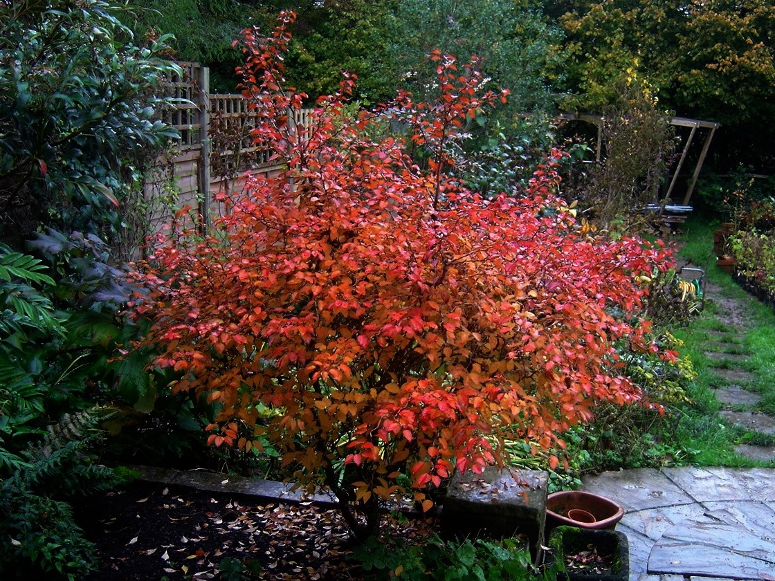 Another shot of this excellent small tree. Is it my imagination or is it even more vibrant this year than ever?